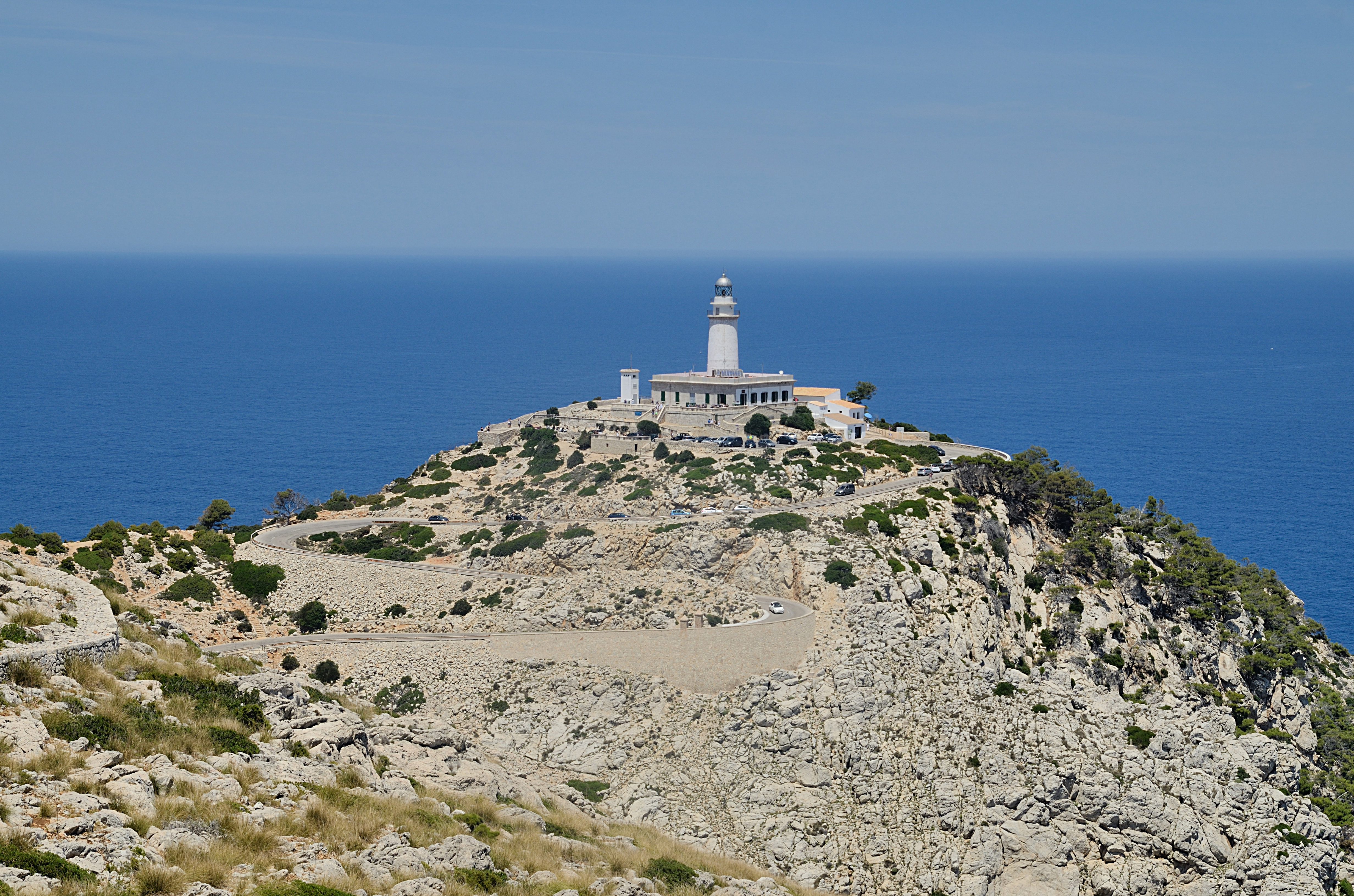 Lighthouse at Cap Formentor